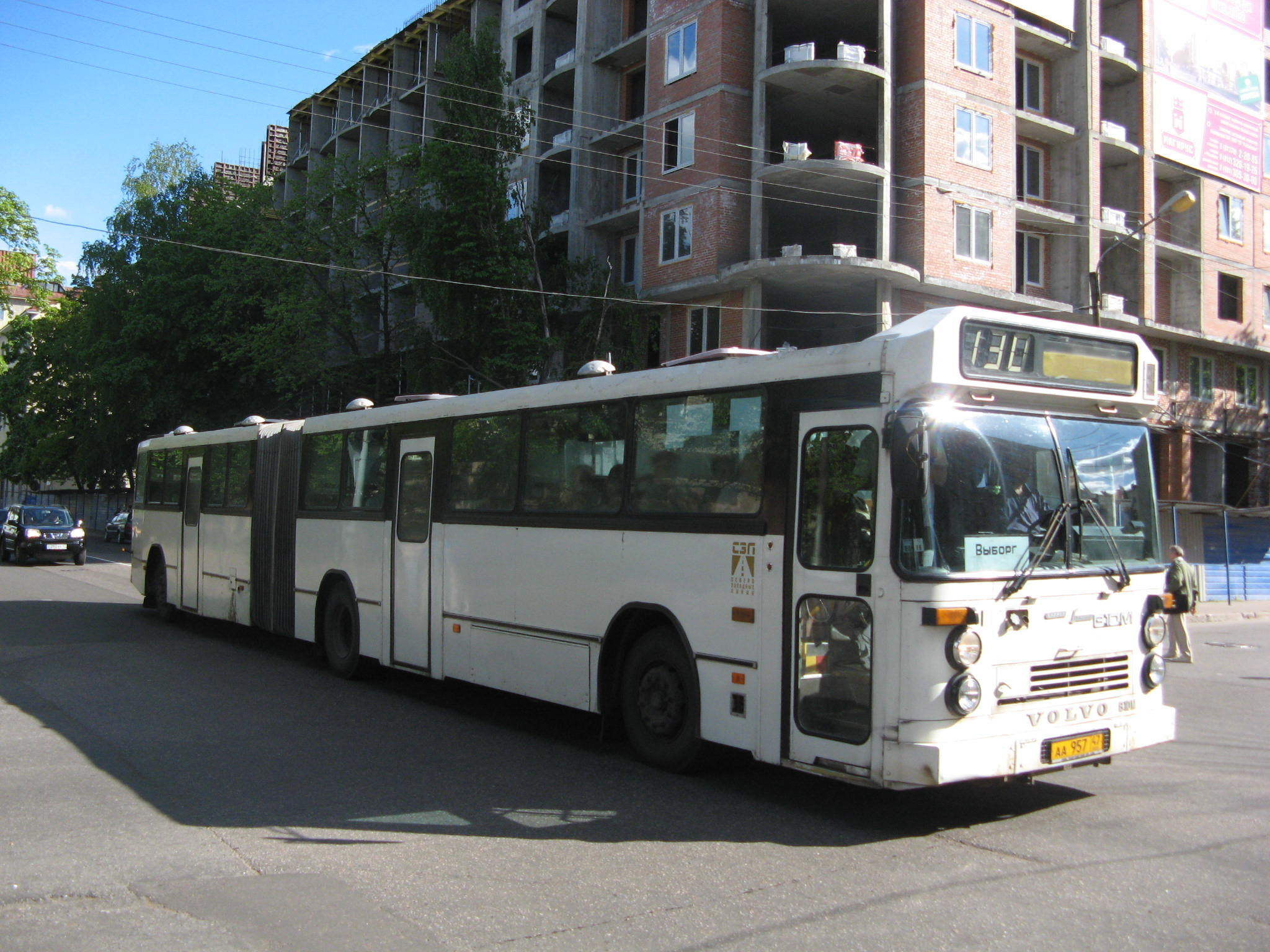 Articulated bus «Volvo B10MA», OJSC «NWL+», route number 130 (Ermilovo—Vyborg) in Viborg, Krepostnaya Str. and Moscowsky Ave. intersection